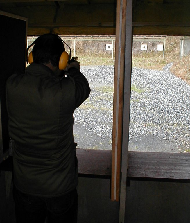 Shooting at Arendal Pistolklubbs range, Norway